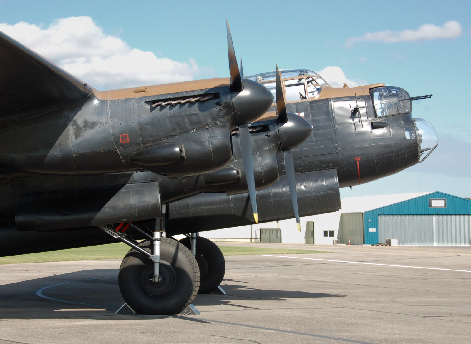 Nose of the Battle of Britain Memorial Flight Lancaster B1 bomber (PA474). The aircraft is waiting to display at Kemble Battle of Britain Weekend 2009, Cotswold Airport, Gloucestershire, England. The BBMF brochure for 2009 says “one of 7,377 Lancasters built. In the markings of No 550 squadron on one side (BQ-B) and No 100 squadron on the other (HW-R). Built in Chester, England, in mid-1945, too late to take part in World War 2.”